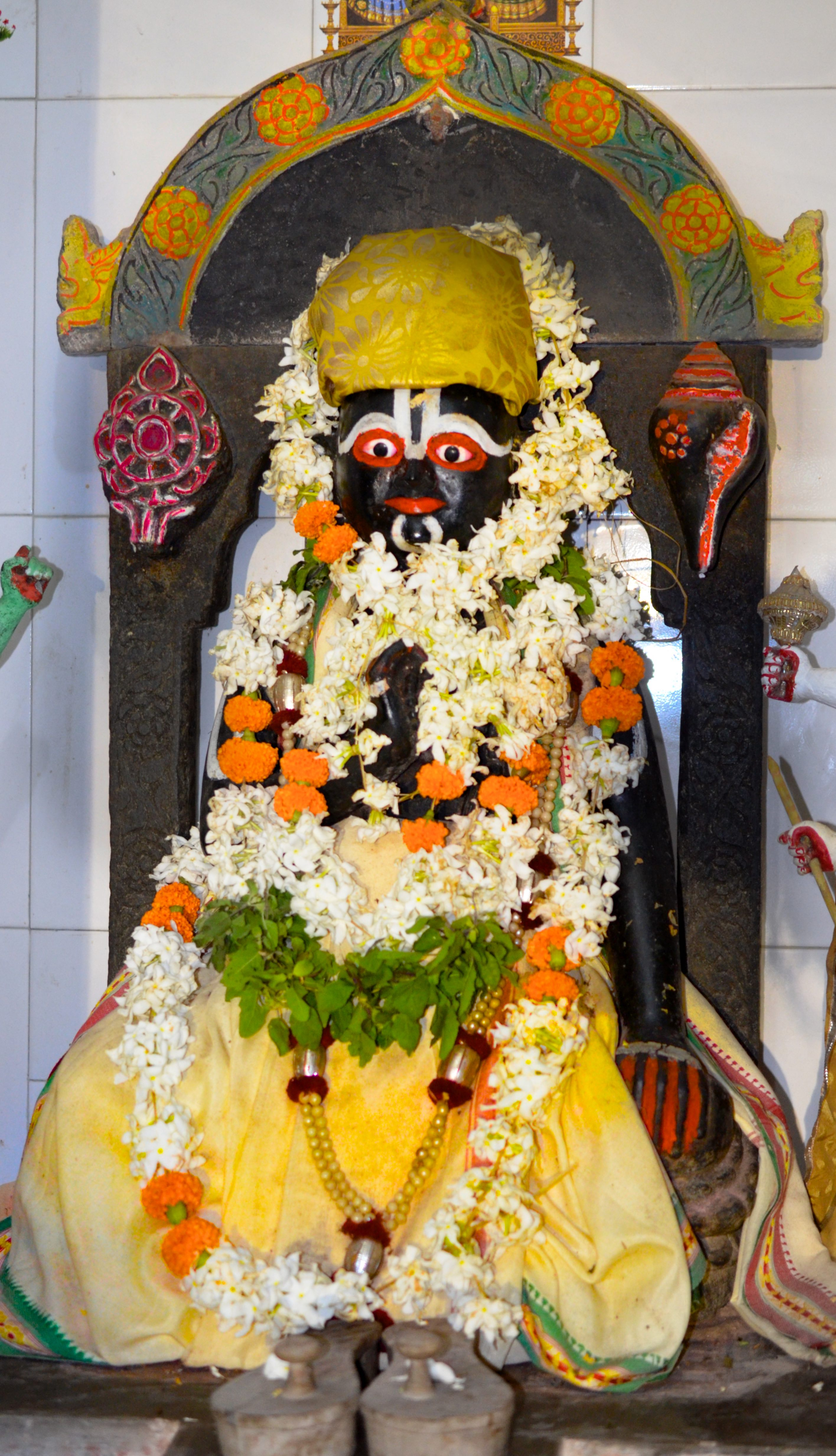 15th-century Odia seer and writer of the Odia Bhagabata, Atibadi Jagannatha Dasa. This is the idol enshrined in the Bada Odia Matha of Puri, where Atibadi once used to reside and teach. It is the most important of the few sources that give us an idea of his appearance.